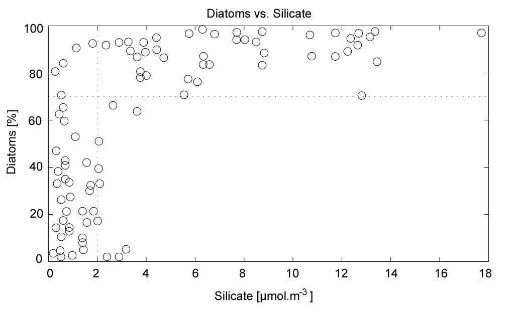 Diatom fraction of algal population as a function of ambient silicic acid. Adapted from Egge & Aksnes (1992).